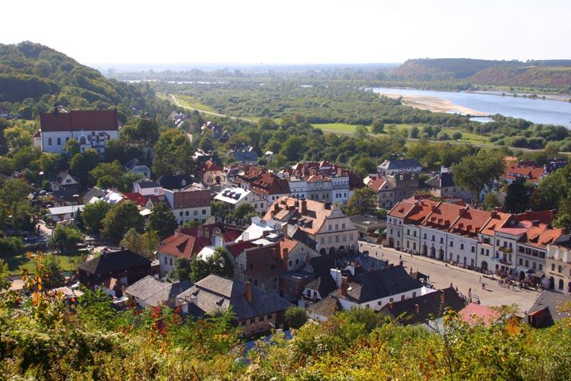 Kazimierz Dolny in Poland